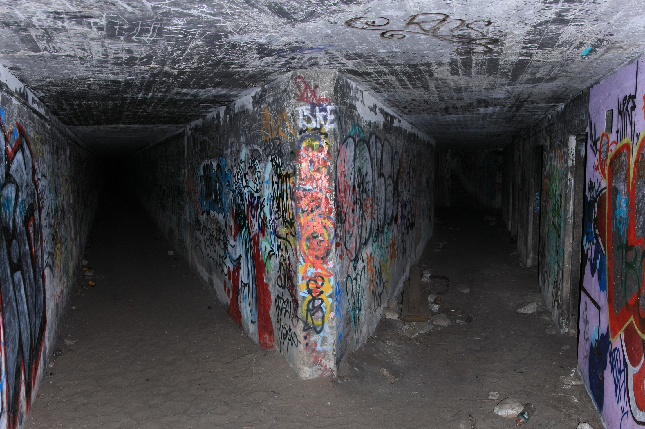 Tunnels leading to gun emplacements at the Malabar Battery in Sydney